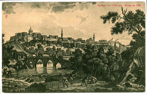 View of Yerevan, Armenia in 1796.